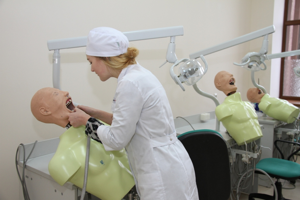 Клинико-диагностический стоматологический центр СОГУ